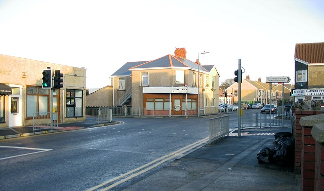 The Cross, Loughor (Recreated)